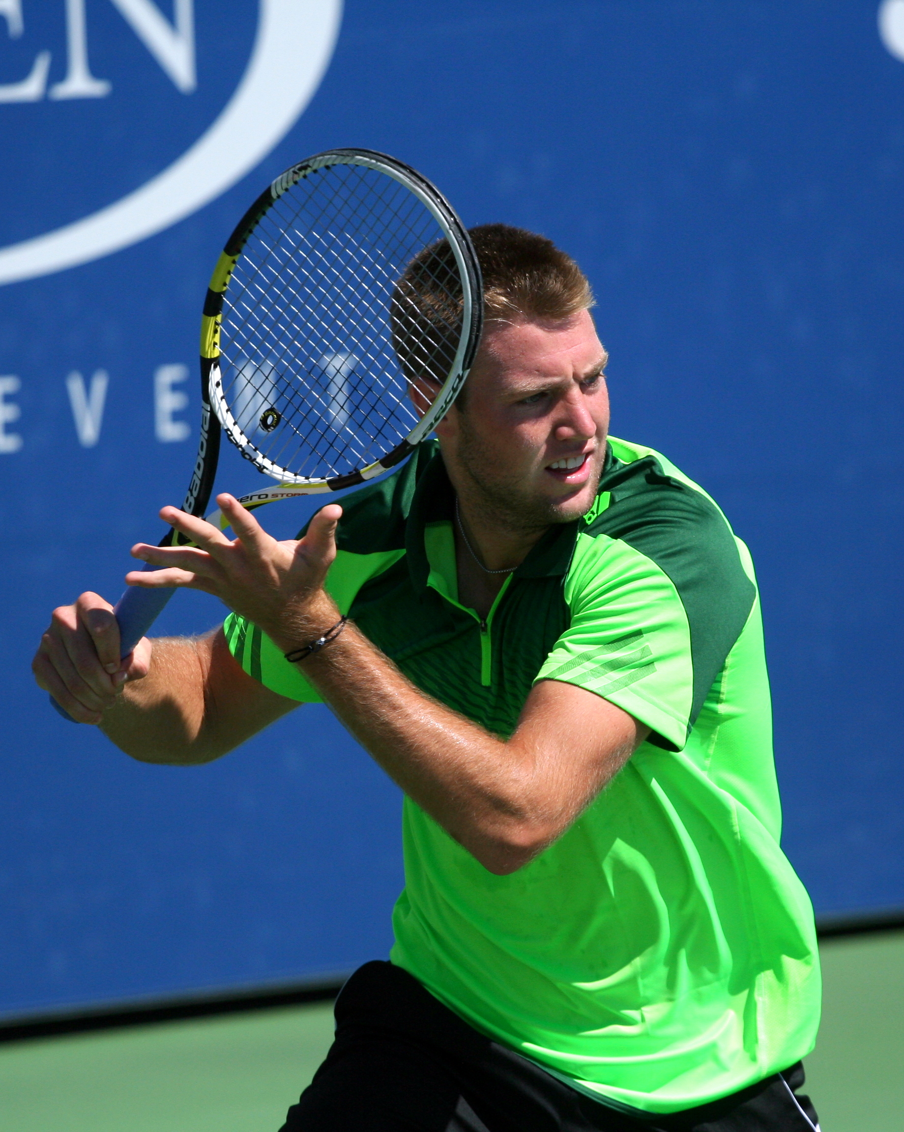 U.S. Open Thursday, Aug. 28, 2014